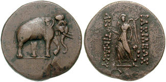 Demetrios I elephant and Nike, 180 BCE